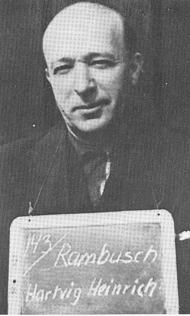 Hartvig Heinrich Rambusch (1894-1970), Danish lawyer, politician, and resistance member